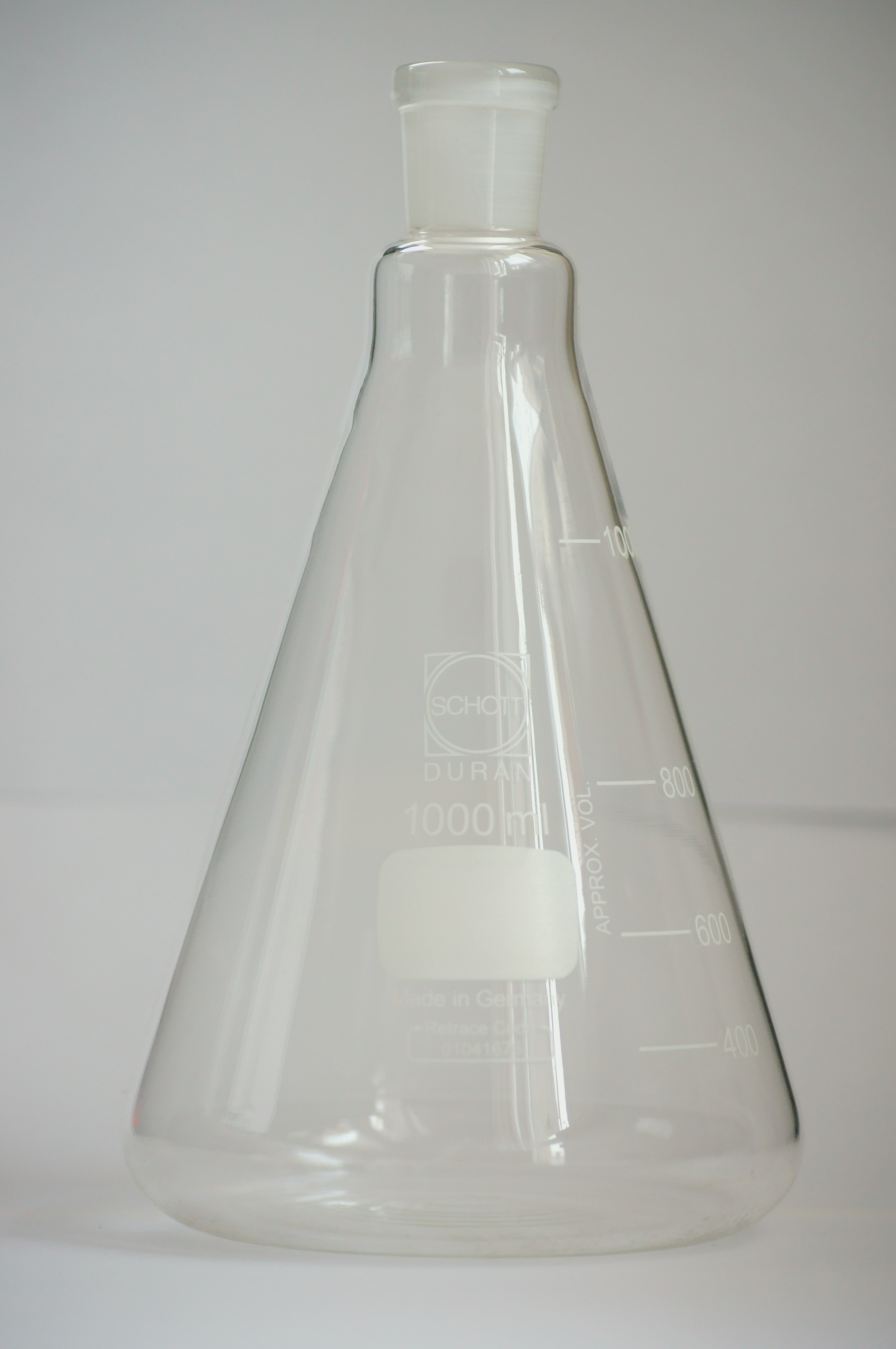 1000 mL Schott Duran Erlenmayer flask